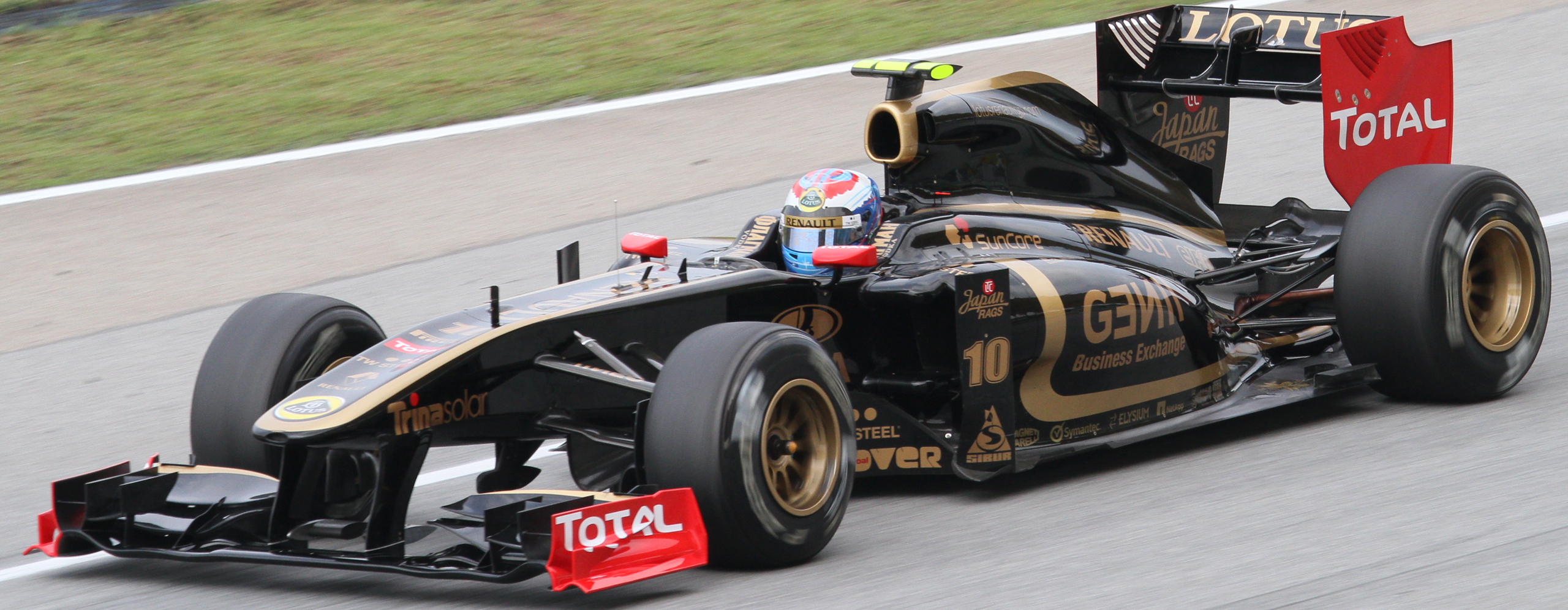 Formula One 2011 Rd.2 Malaysian GP: Vitaly Petrov (Renault) during the first practice session on Friday.